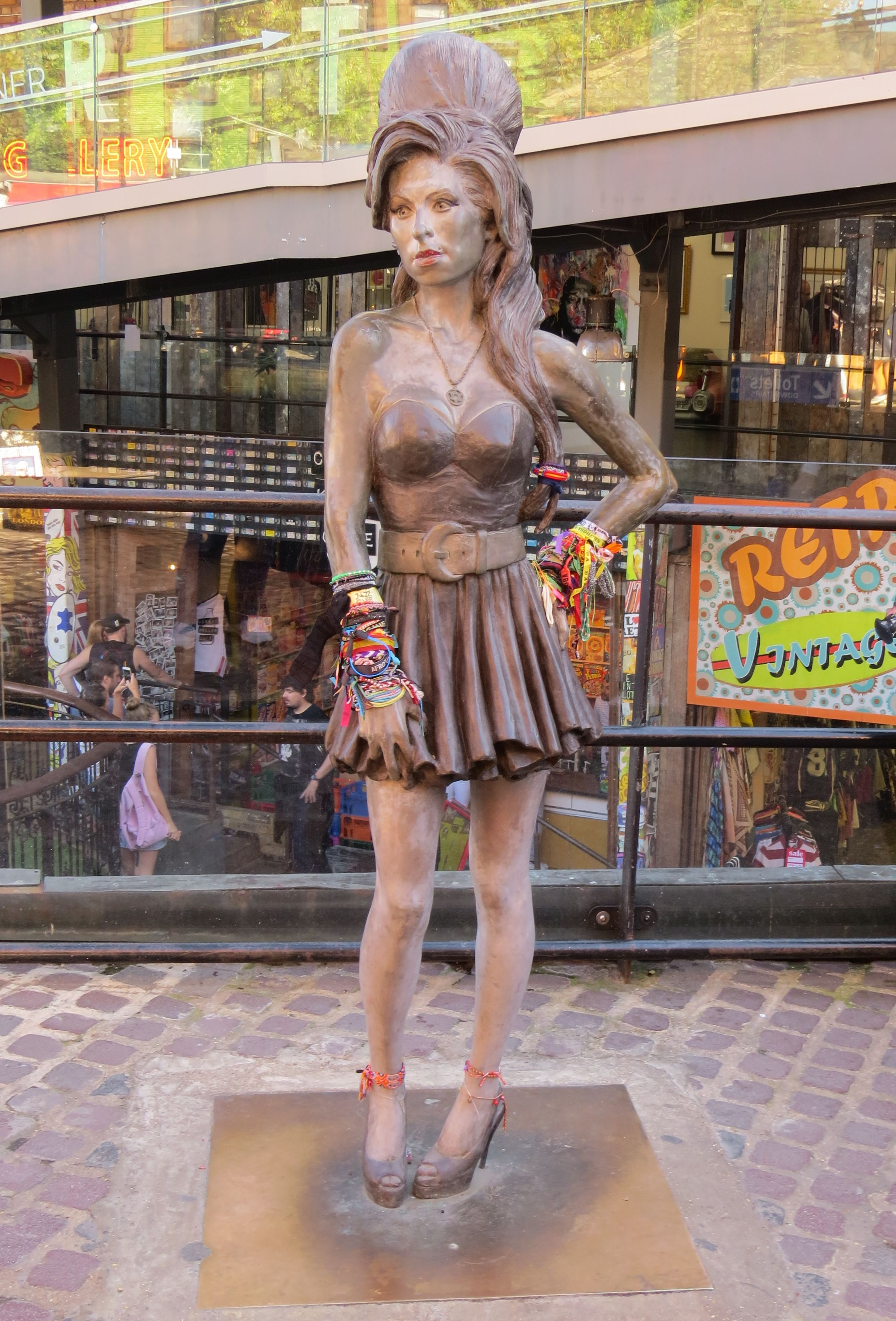 Statue of Amy Winehouse in Camden Town (London), taken September 2011.